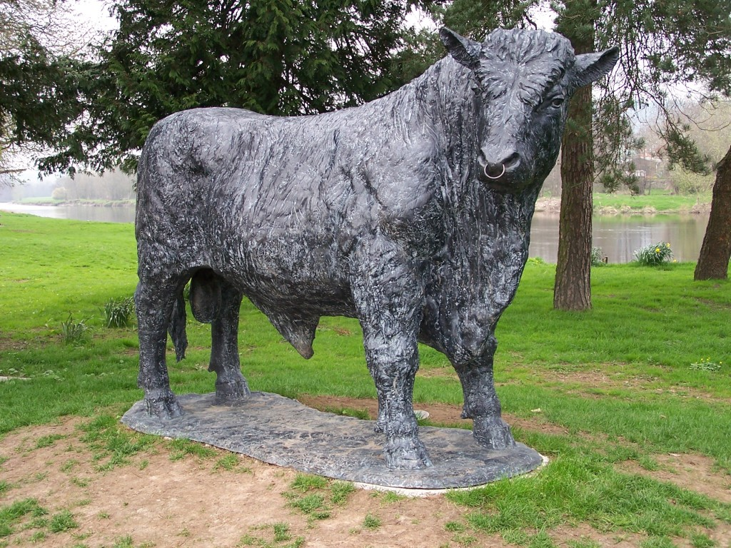 Welsh Black life-sized bronze bull in Builth Wells, Powys, near Royal Welsh showground